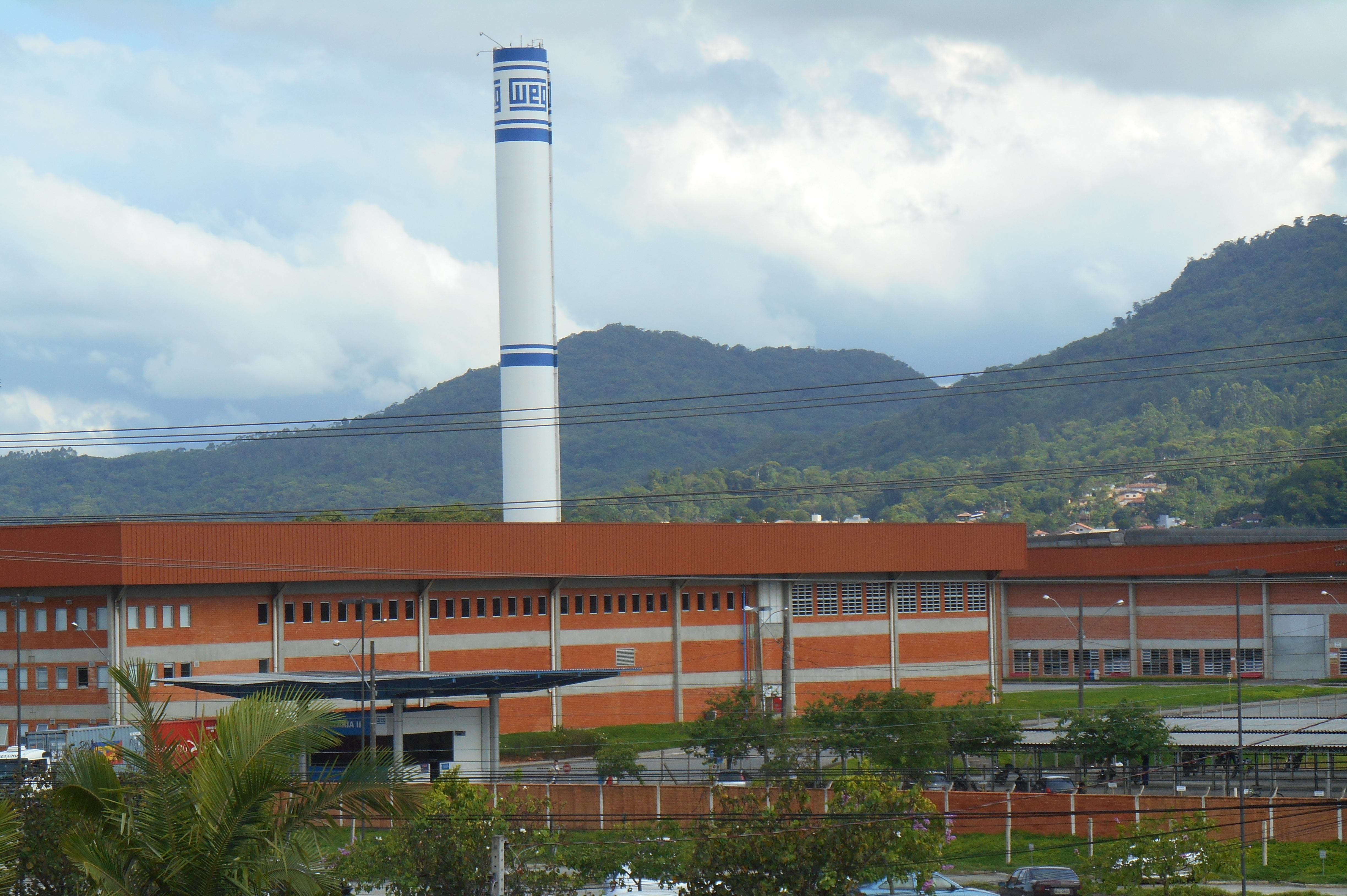 Front view of "WEG II, Asa Leste", a unit of WEG Industries in Jaraguá do Sul, Santa Catarina state, Brazil.